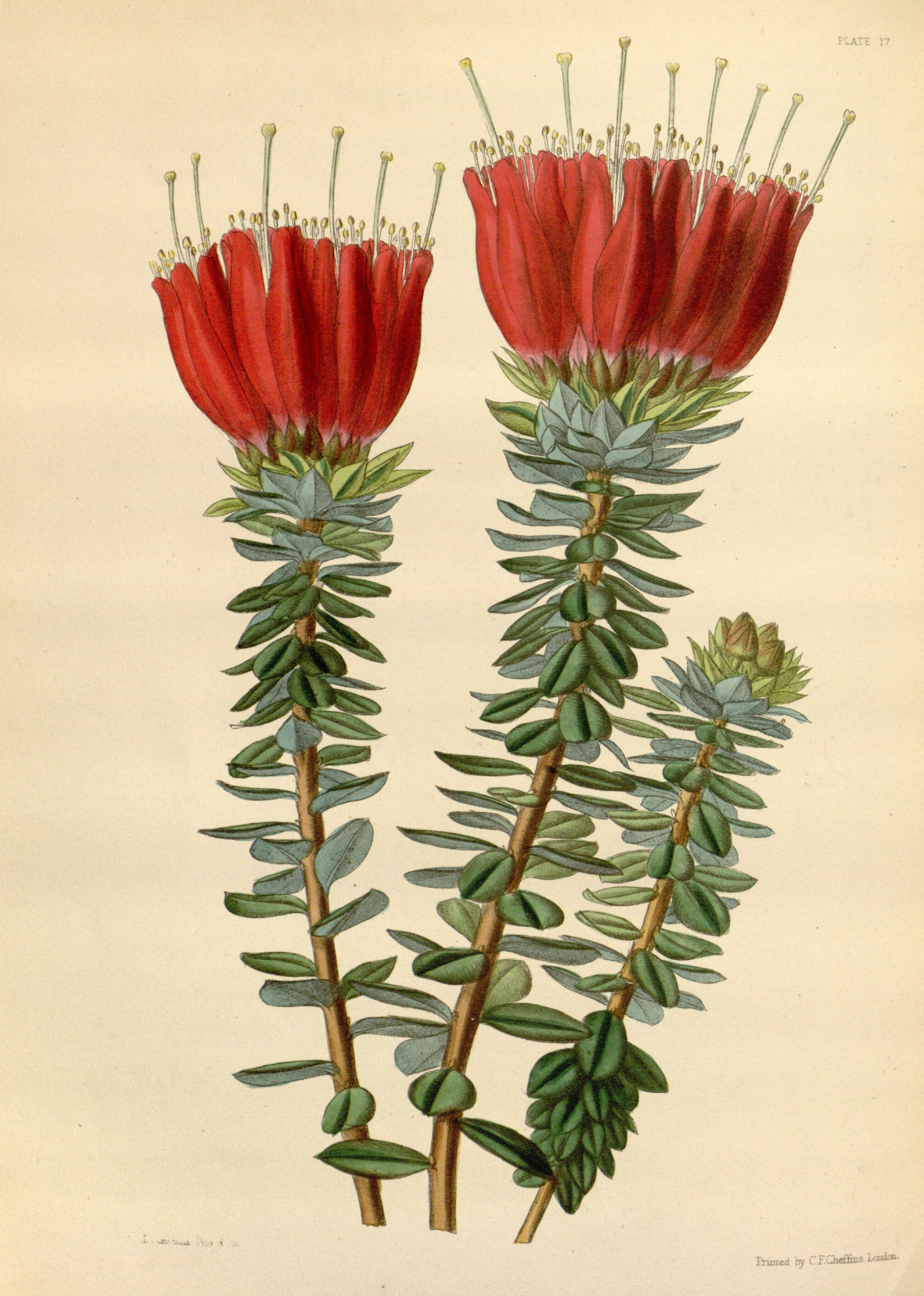 Bejaria aestuans Mutis ex L., syn. Bejaria coarctata Bonpl.